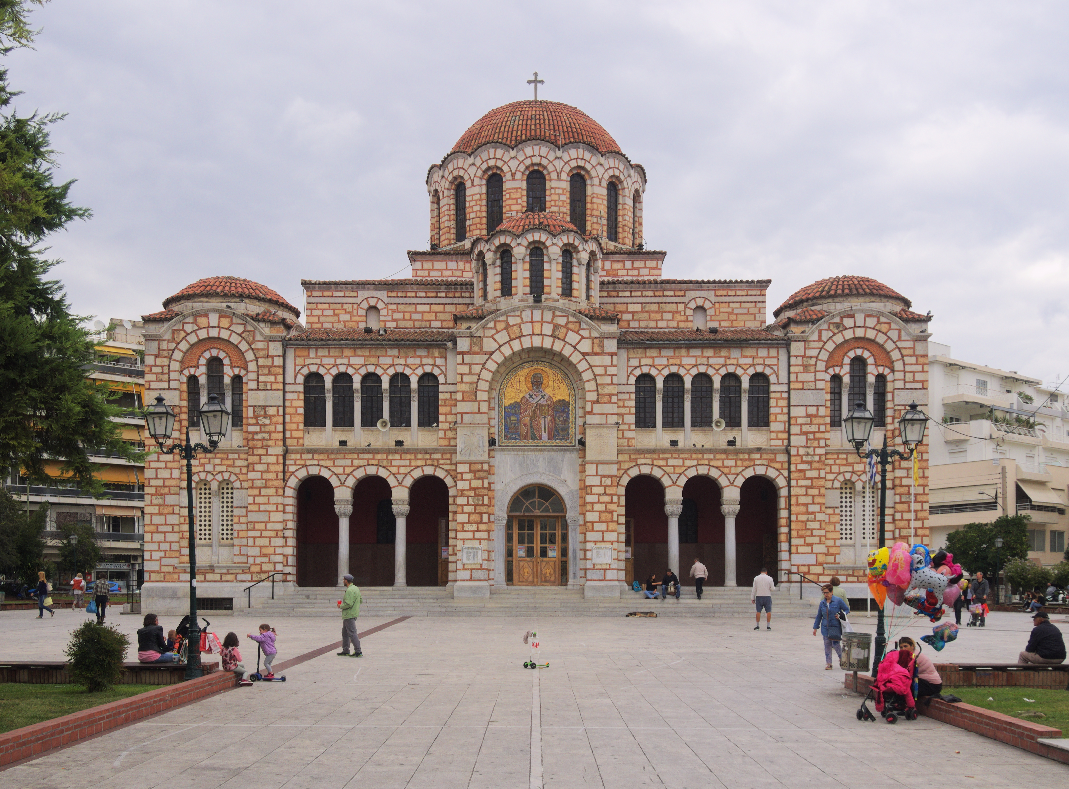 The metropolitan church of Saint Nicholas in Volos, designed by Aristotelis Zachos (1871-1939).